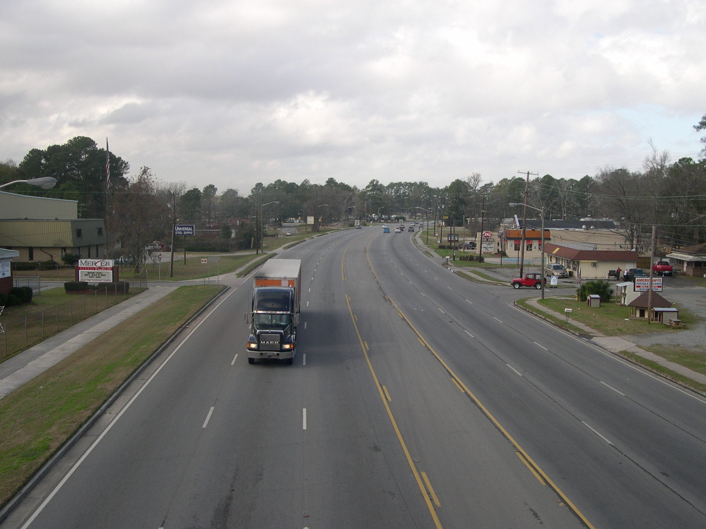 5000 block of Augusta Road (Highway 21) in Garden City, Georgia.